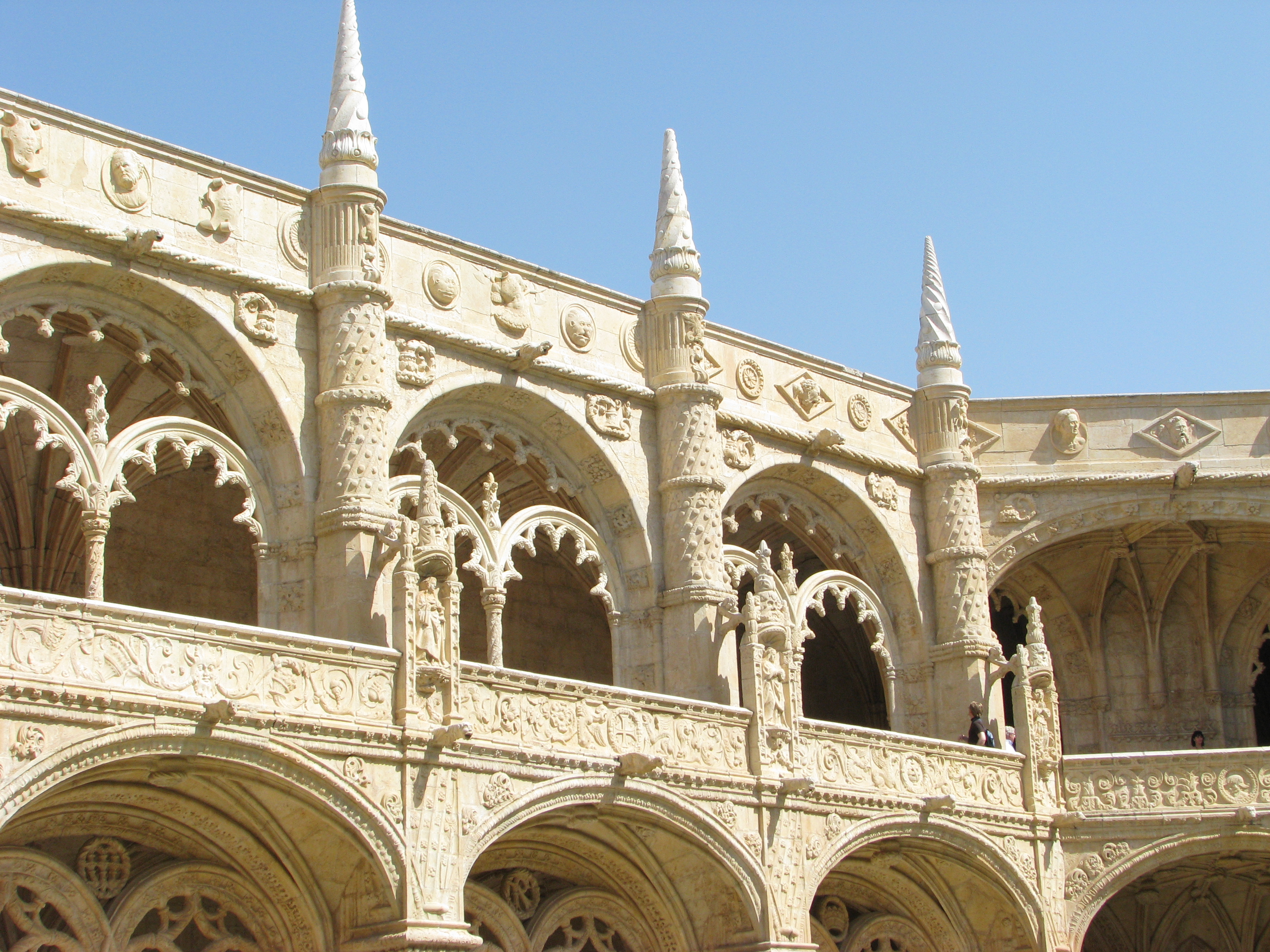 Belem (Portugal), Mosteiro dos Jerónimos , detail of the cloister